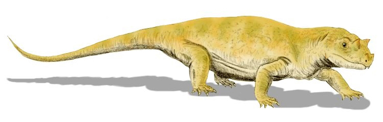 Tetraceratops insignis, a therapsid (?) from the Early Permian of North America